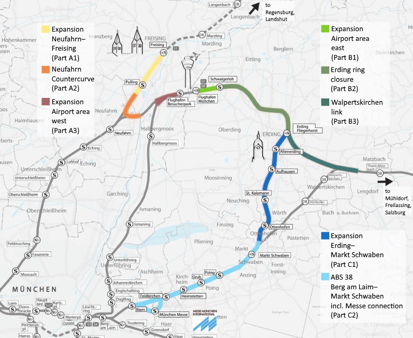 Overview of planned projects to connect Munich airport with east Bavaria: Neufahrn Countercurve, Erding Ring Closure, Walpertskirchen Link, S-Bahn München Riem–Erding, railway München–Mühldorf(–Freilassing)